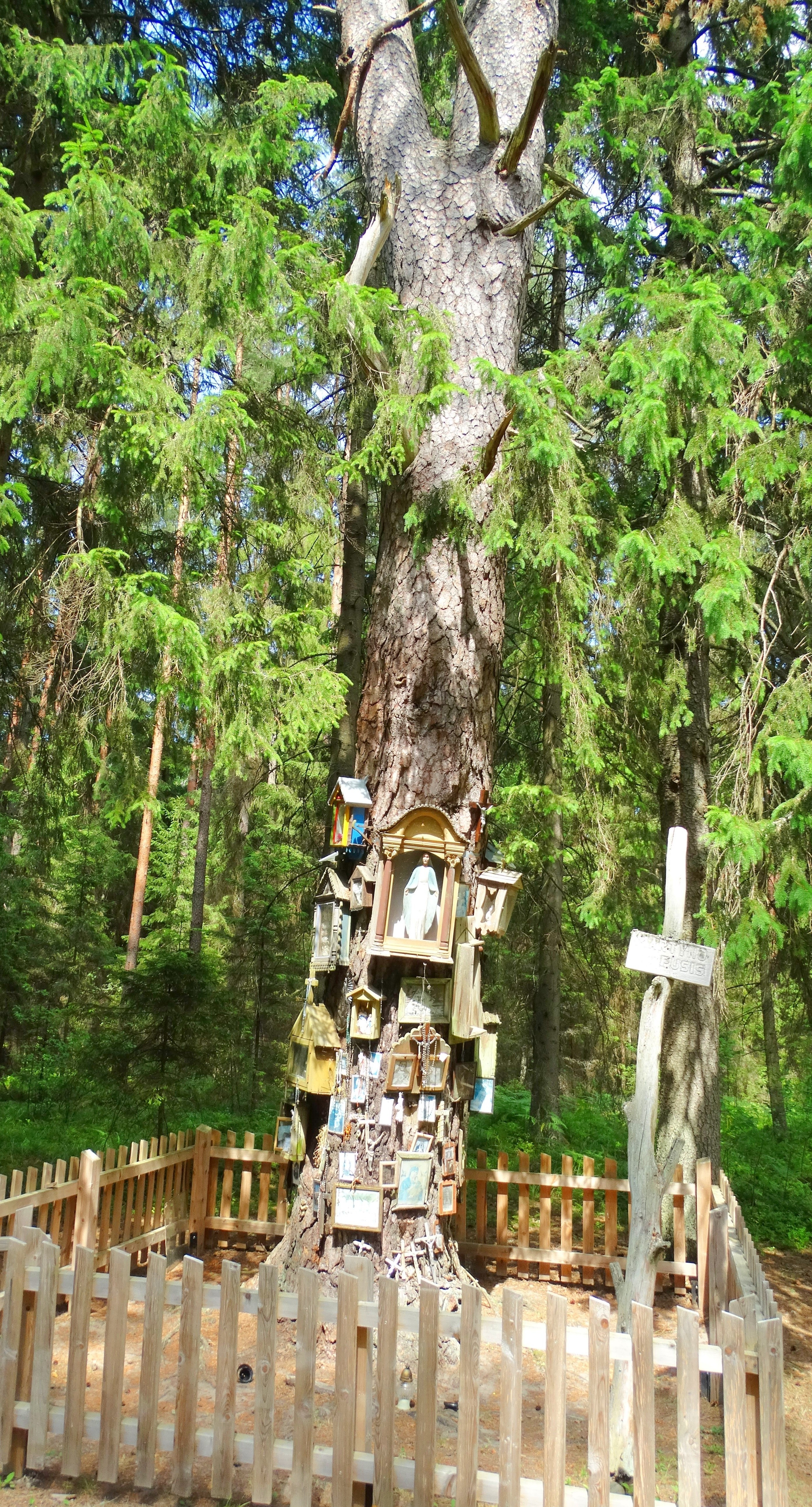 St. Martin's pine tree, Kelmė district, Lithuania